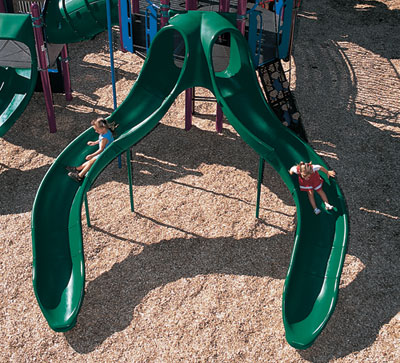 Aerial view of a two slide play structure designed by Landscape Structures Inc.